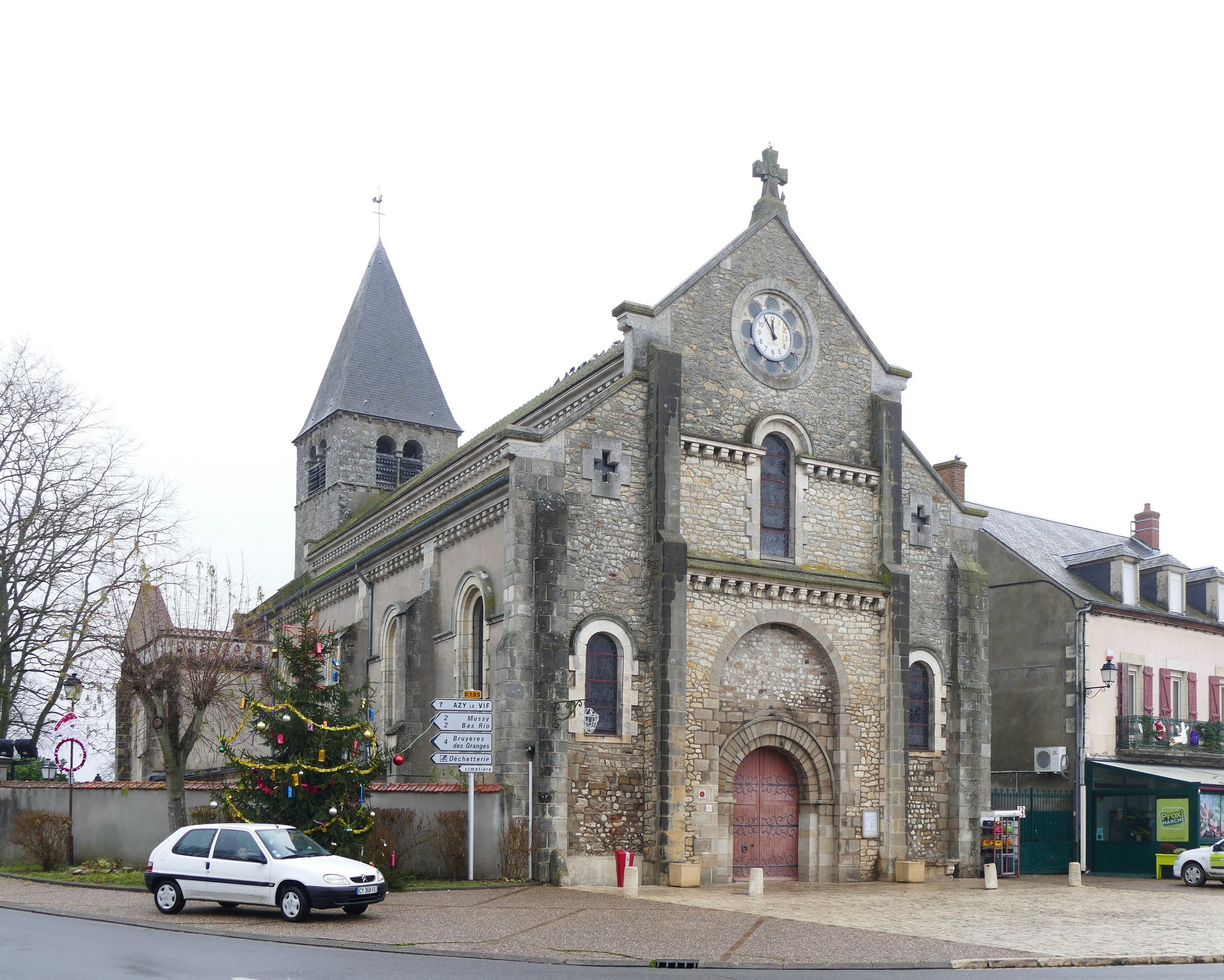 Saint-Martin's church in Chantenay-Saint-Imbert (Nièvre, Bourgogne, France).